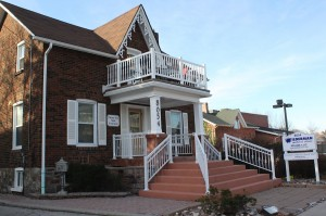 Front view of the Wilderman Medical Clinic, located at 8054 Yonge Street in Thornhill, Ontario.